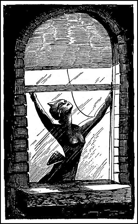 A panel from Milt Gross's He Done Her Wrong (1931); Gross parodies Lynd Ward's woodcut style